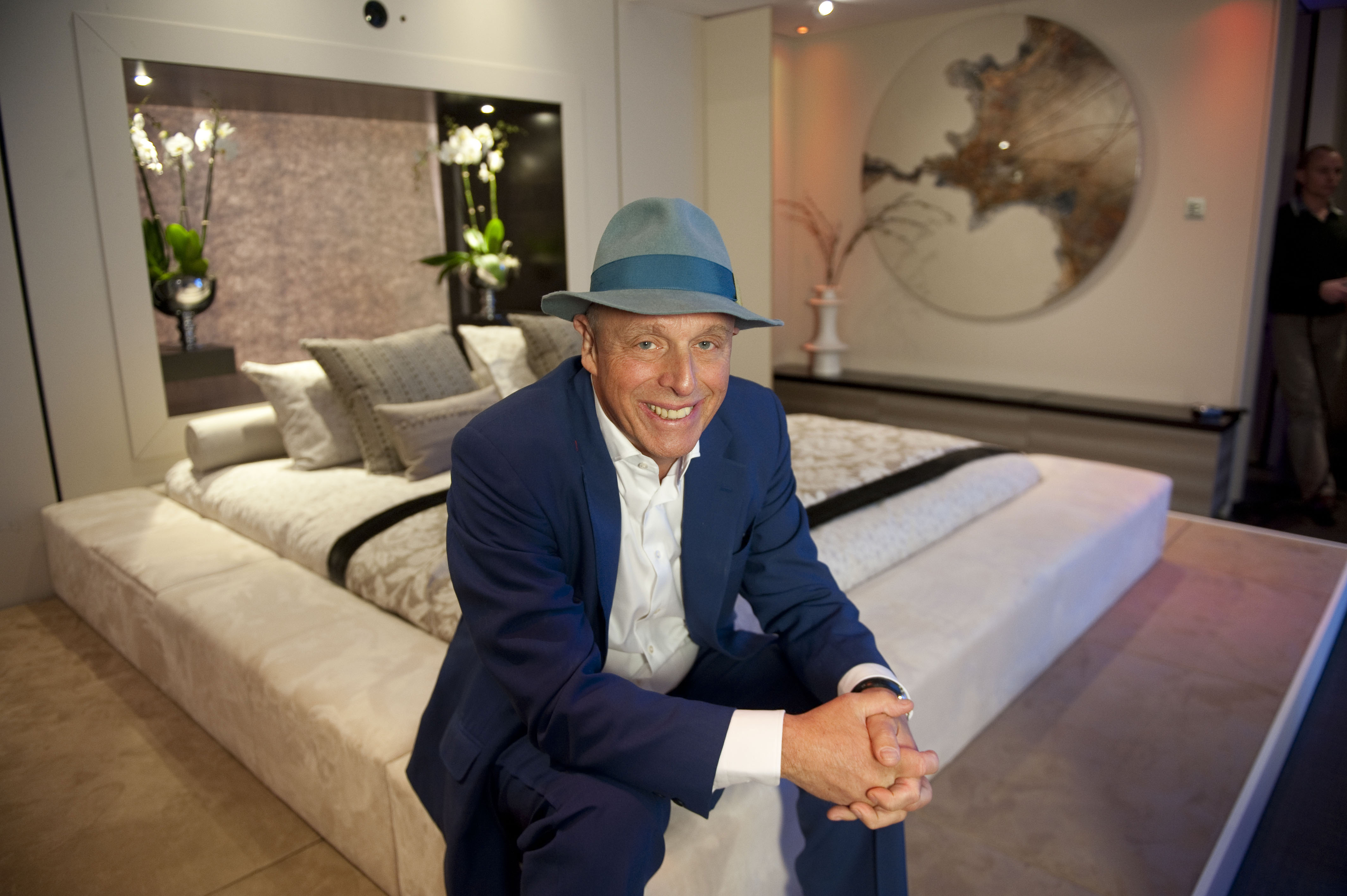 YO! Sushi founder Simon Woodroffe reveals images of his latest brand, called YO! Home